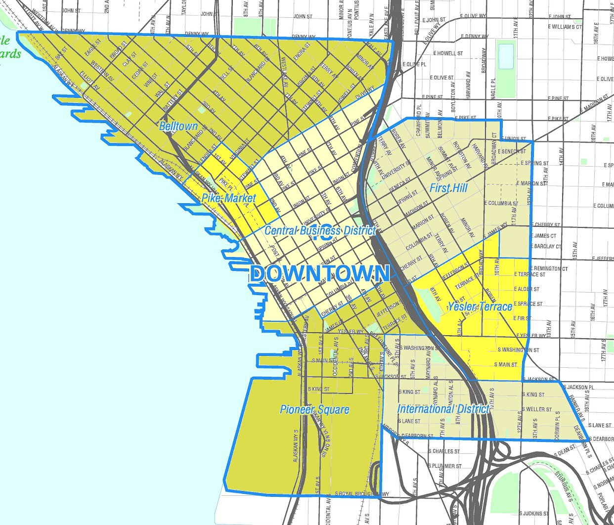 Map of Seattle's Downtown neighborhoods. Like the other maps from the Seattle City Clerk's Neighborhood Map Atlas, this is not an official map; in particular, borders are not official. Disclaimer: The Seattle Neighborhood Atlas, which the Seattle Clerk's Office has placed in the public domain (as confirmed by OTRS ticket 2008033110016048) contains some general commentary on the maps, "About Maps", which should typically be linked as an accompaniment to these maps to (in their words) "minimize the numerous 'complaints' or comments by users who feel it necessary to point out how the Clerk's Office is 'wrong' about a certain section of town." In particular, "About Maps" says that the atlas "is designed for subject indexing of legislation, photographs, and other documents in the City Clerk's Office and Seattle Municipal Archives" and "is not designed or intended as an 'official' City of Seattle neighborhood map. There are many different ideas of what neighborhood districts exist in Seattle and what their names are…"